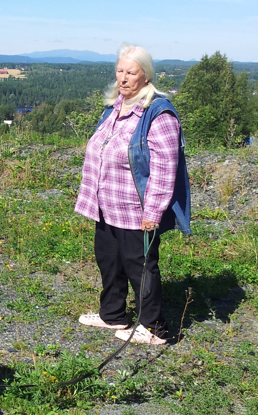 Turid and her dog McKenzie